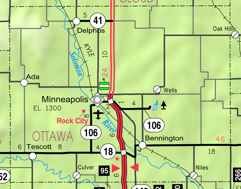 This map of Ottawa County, Kansas, USA, is copied at a resolution of 300 pixels/inch from the original PDF file.